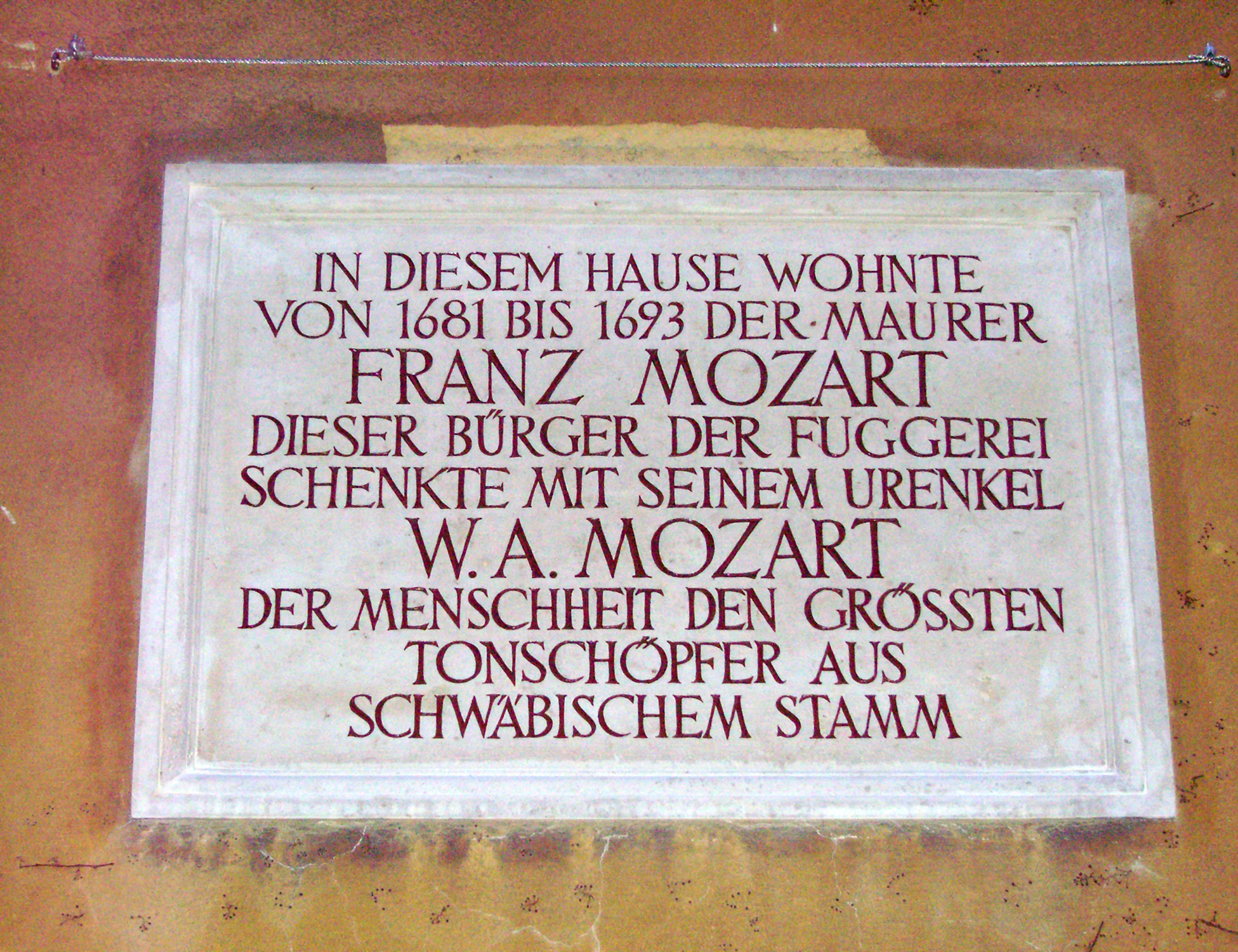 Memory plate for Franz Mozart at his house in Fuggerei, Augsburg